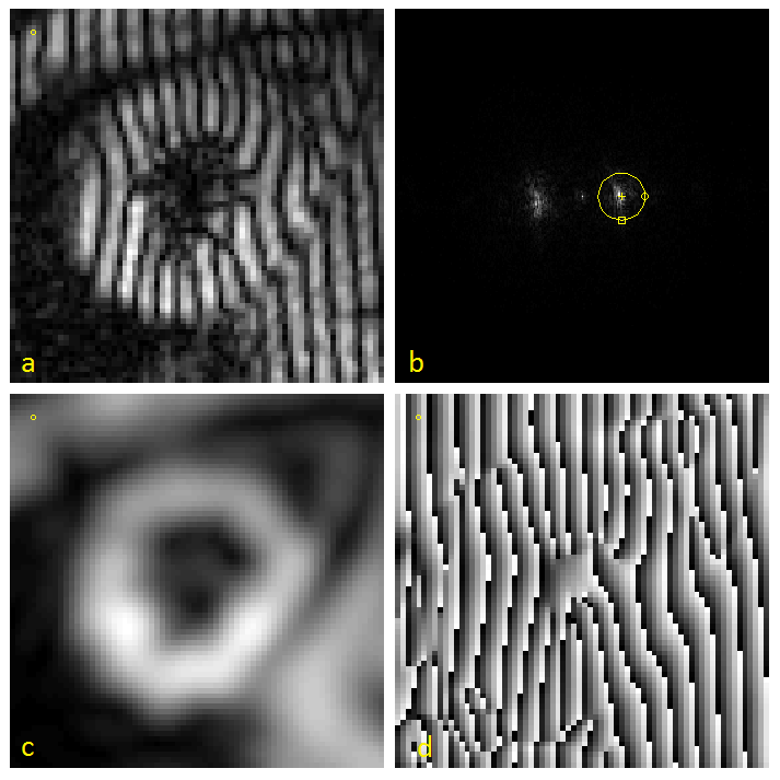 Image shows example processing with the HARP MR Tagged Tracking software.